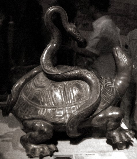 A Xuanwu ("Black Tortoise") statue from the collection of Hubei Provincial Museum, exhibited at a temporary expo at Beijing Capital Museum. According to the label, it was made during the Yongle Reign (early 15th century), and collected in Wudangshan. Made of gilded copper.